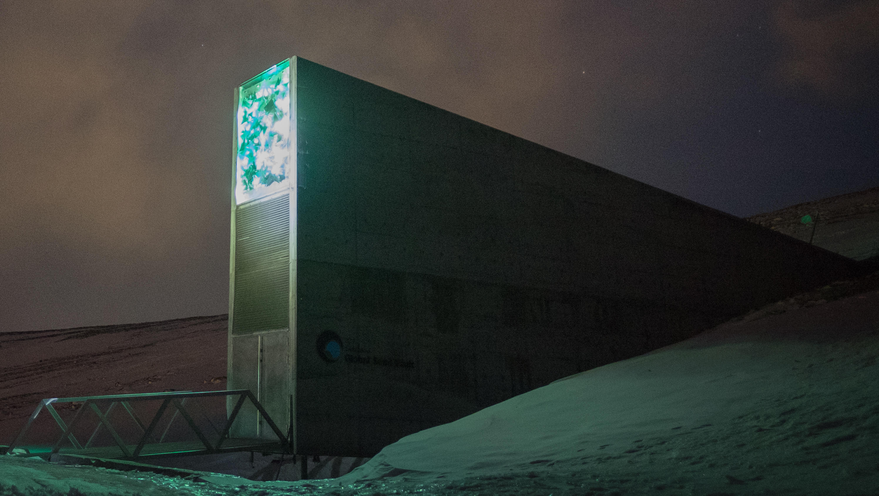 Dusk at the Svalbard Global Seed Vault.